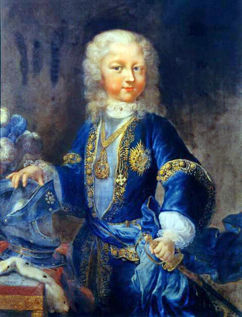 Portrait of Victor Amadeus III of Sardinia (1726-1796)